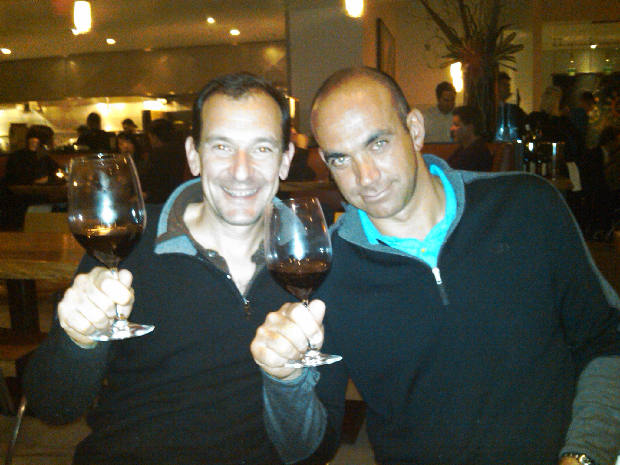 Marc Perrin of @beaucastel